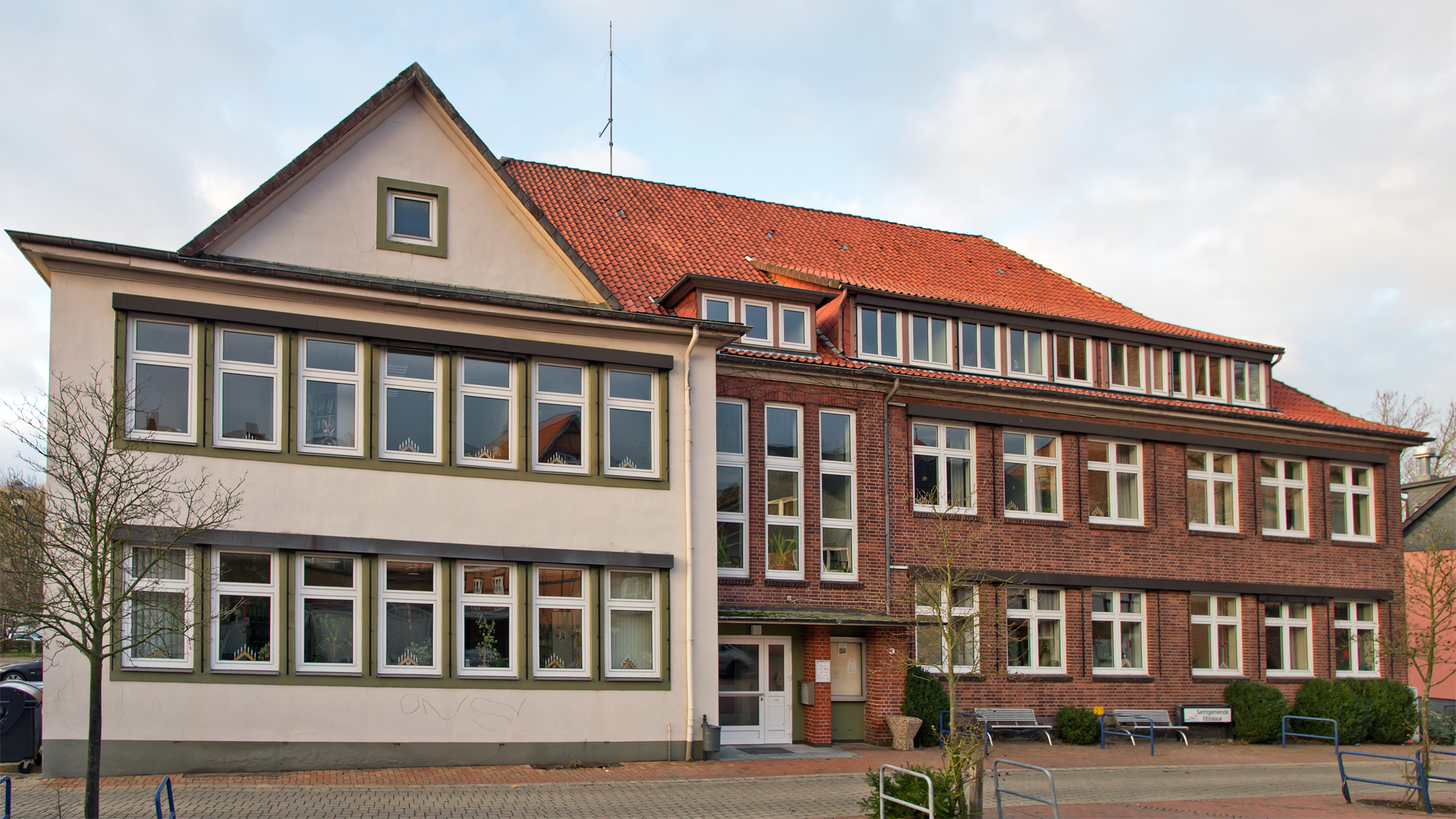 Seat (administration building) of Samtgemeinde Elbtalaue, Rosmarienstrasse 3 in Dannenberg (Elbe).